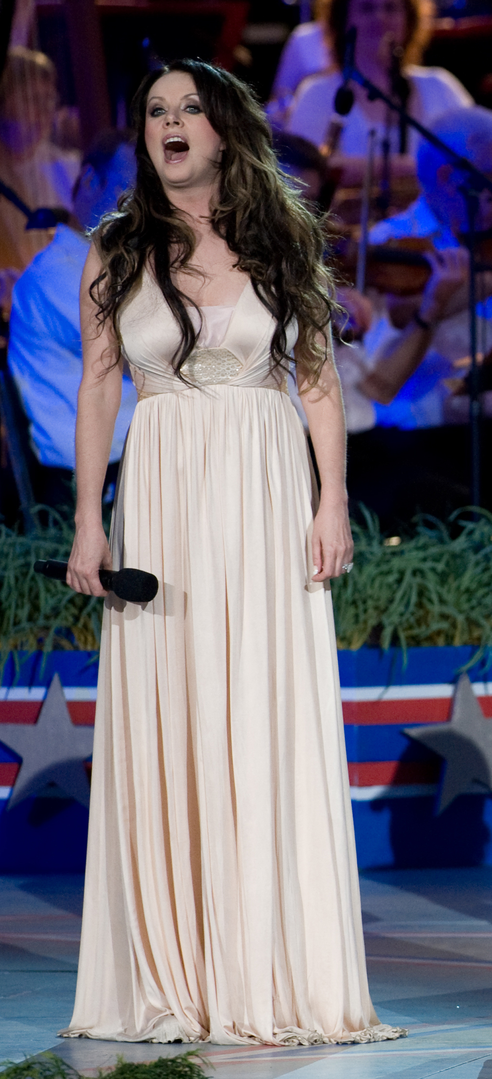 080525-N-0696M-572 Sarah Brightman. DoD photo by Mass Communication Specialist 1st Class Chad J. McNeeley (RELEASE)